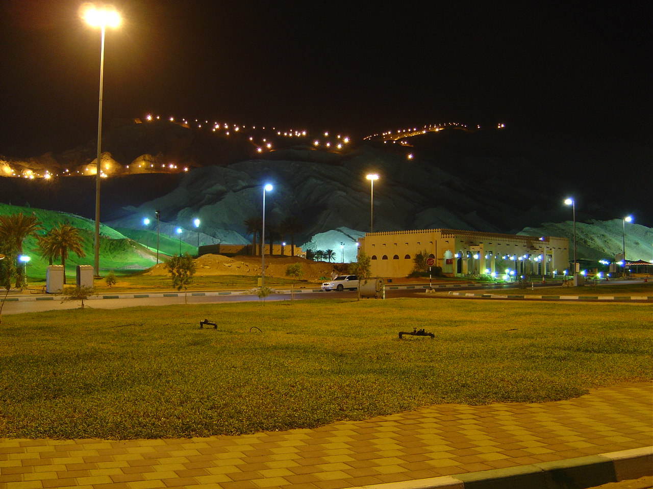 Jebel Hafeet at night.